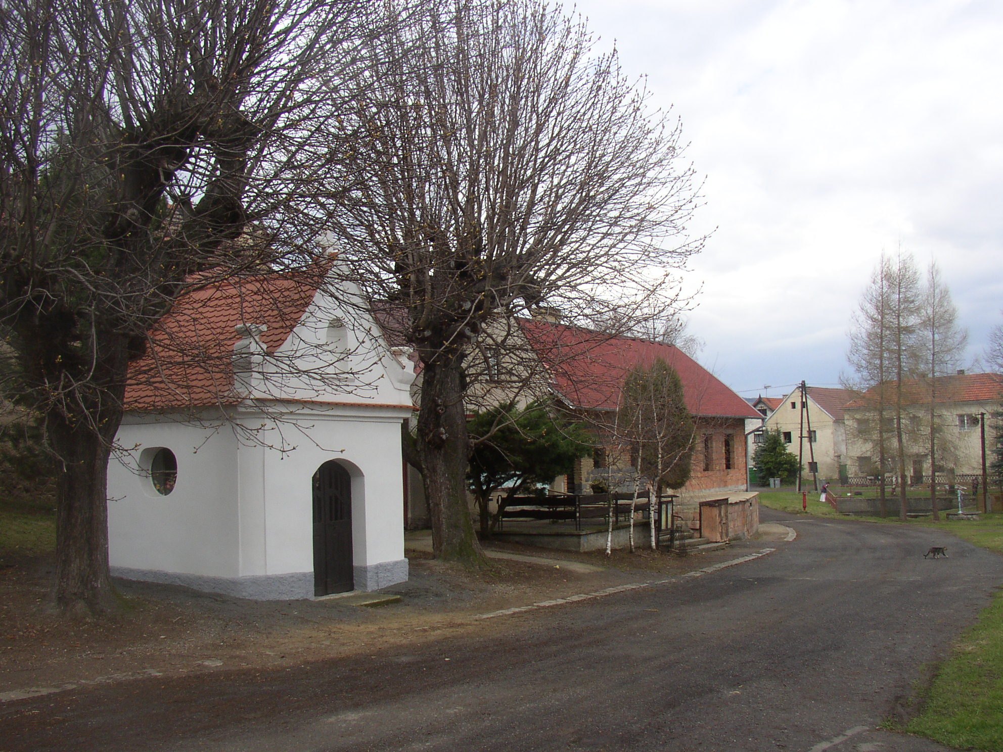 Baroque chapel in Březno, part of Velemín municipality, Litoměřice District, Czech Republic.